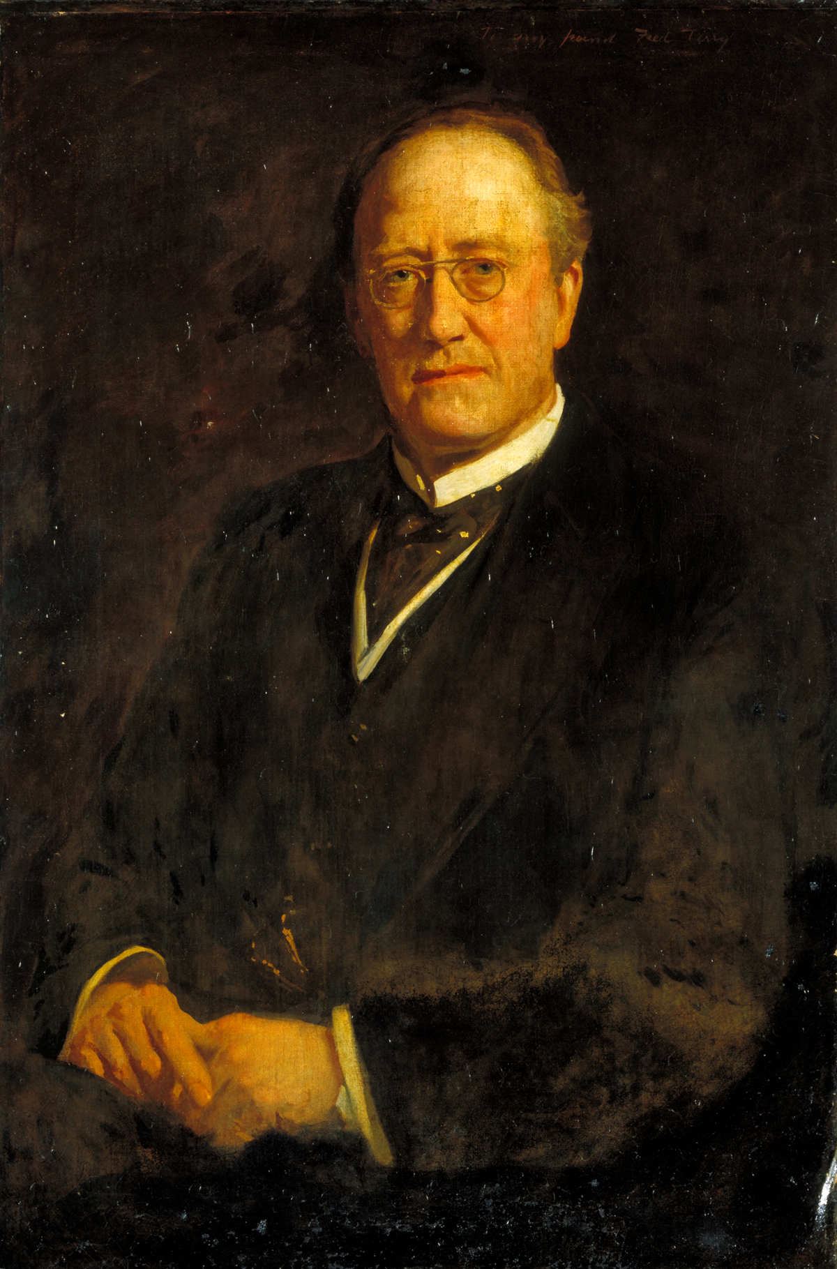 A circa 1920 portrait of Fred Terry (9 November 1863 – 17 April 1933), an English actor famous for sword and cape roles, such as The Scarlet Pimpernel.